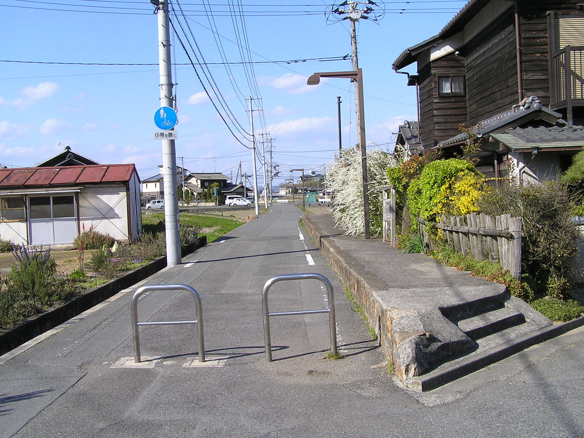 Mark of Fujito station,Shimotsui electric railway